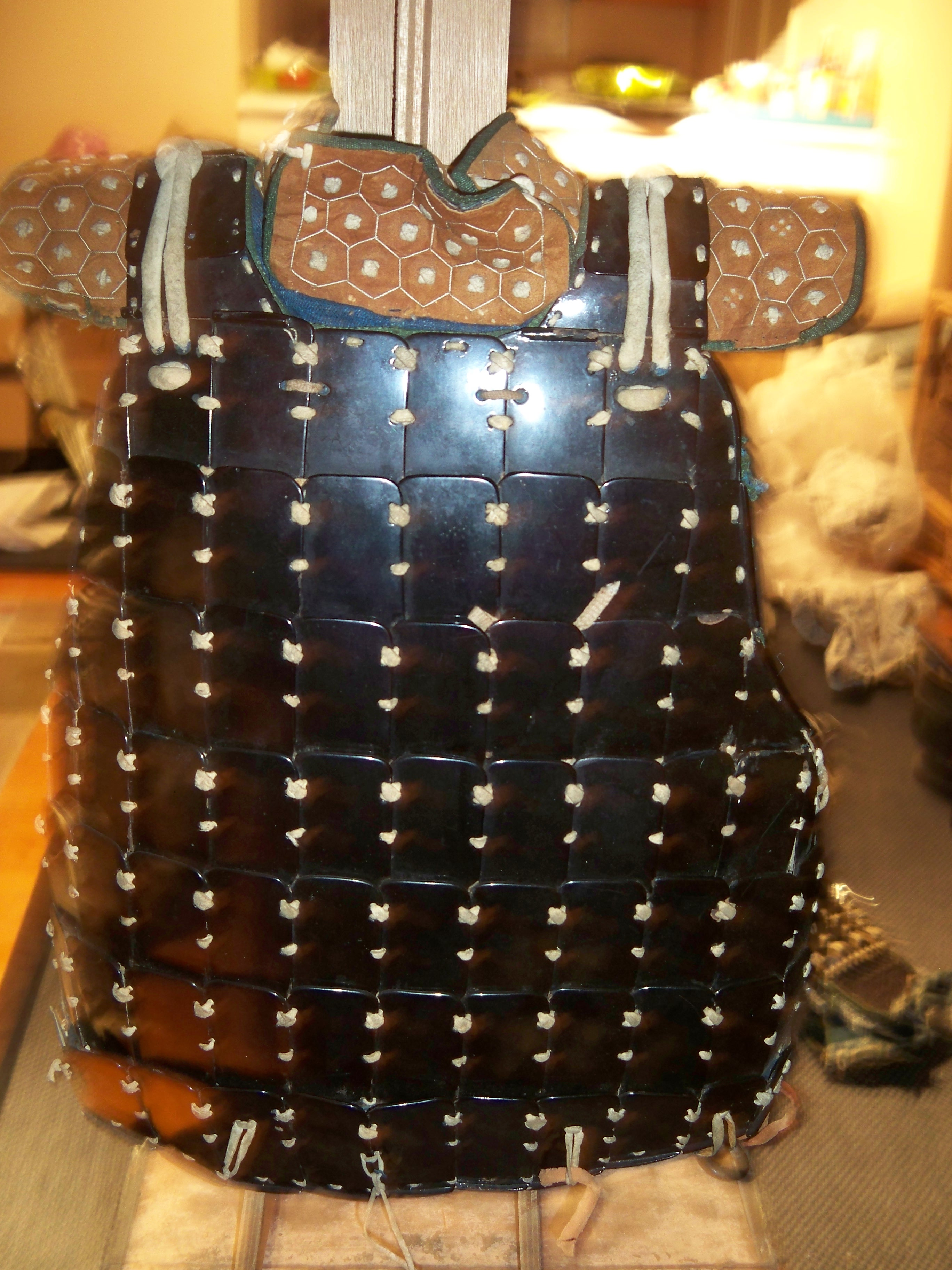 Edo period Japanese ( samurai ) karuta tatami dou. A folding portable chest armor made from small rectangles of armor ( karuta ). This is a rare armor as the karuta armor plates are connected to each other by leather lace instead of kusari (chain).